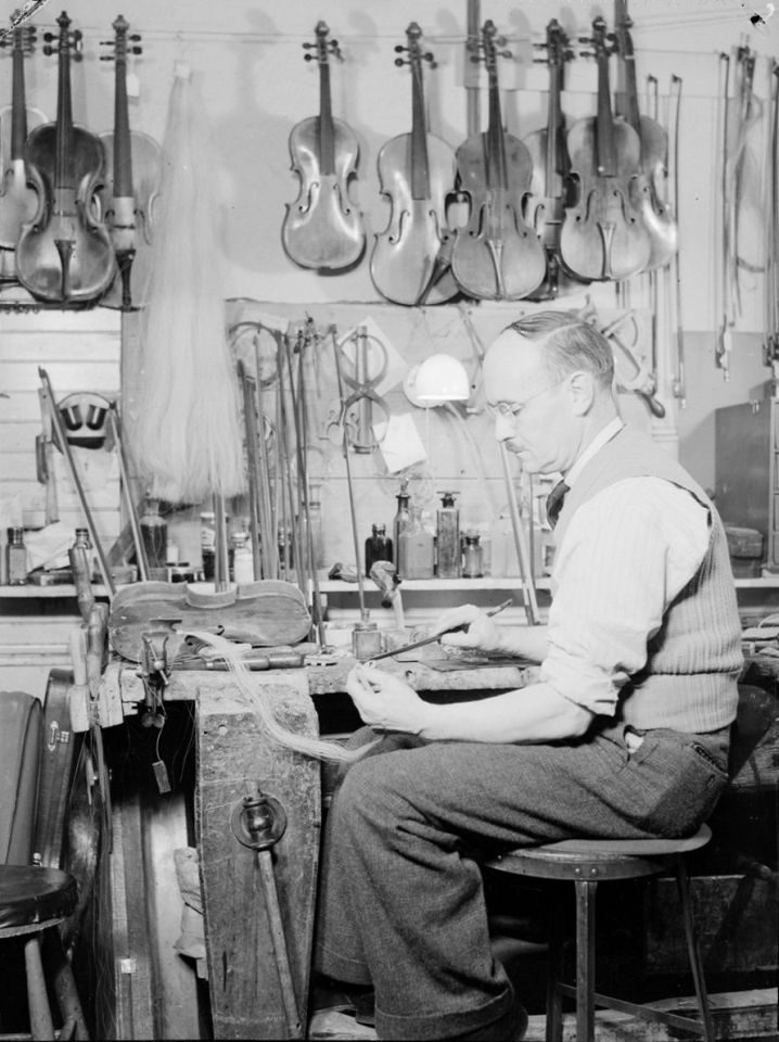 Mr. Forget, luthier, sets a horsehair bow. We note violins, violas and various tools in the workshop of the craftsman of stringed instruments.